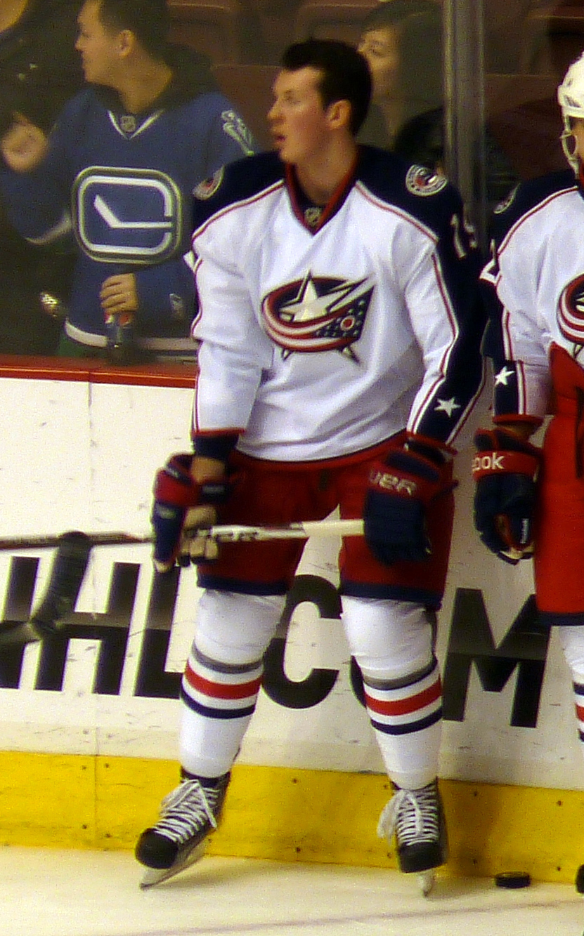 Columbus Blue Jackets forward Ryan Johansen prior to a game against the Vancouver Canucks at Rogers Arena in Vancouver, BC, on November 29, 2011.